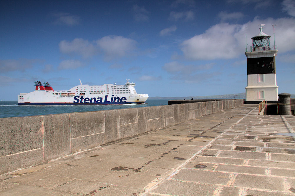 The Lighthouse on Holyhead Breakwater, unusual, in that it is square shaped.